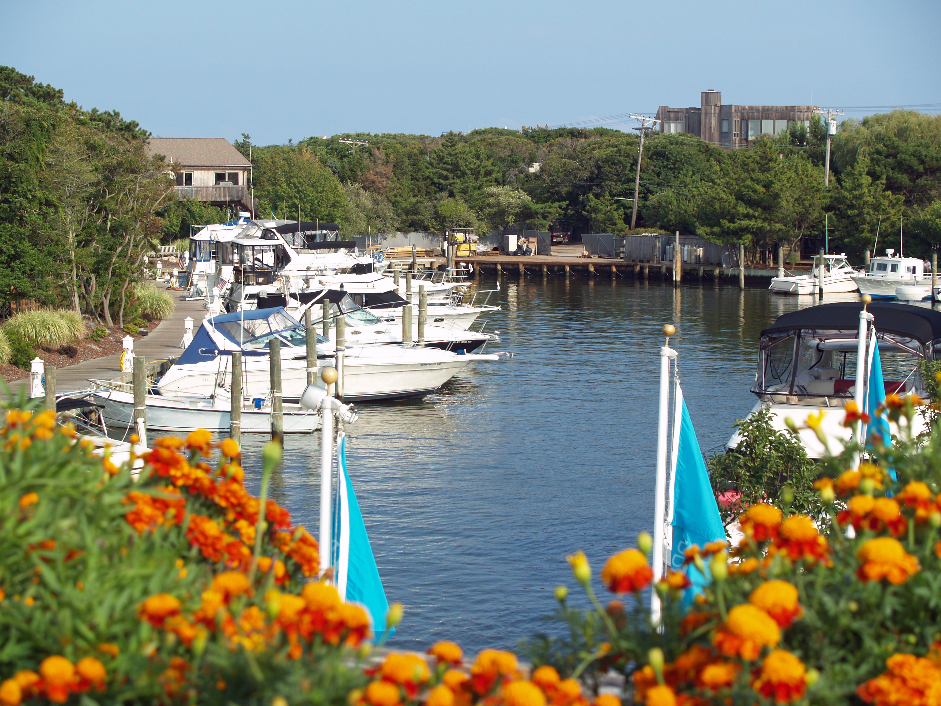 Fire Island Pines. Photographer's blog post about photo and event.